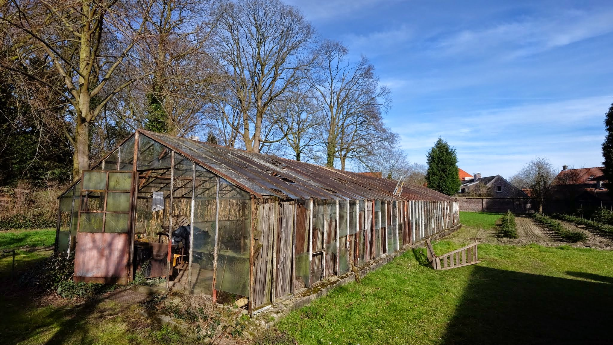 5935 Steyl, Netherlands